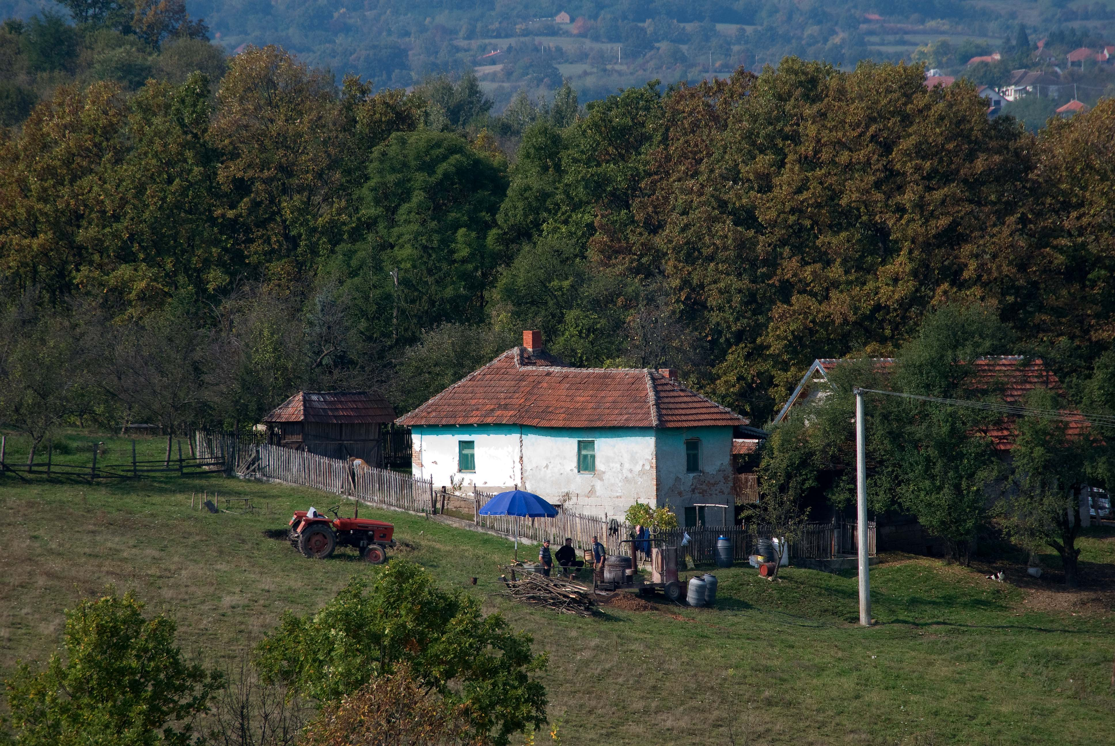 Distilling slivovica in Rucici village near Gornji Milanovac, West Serbia